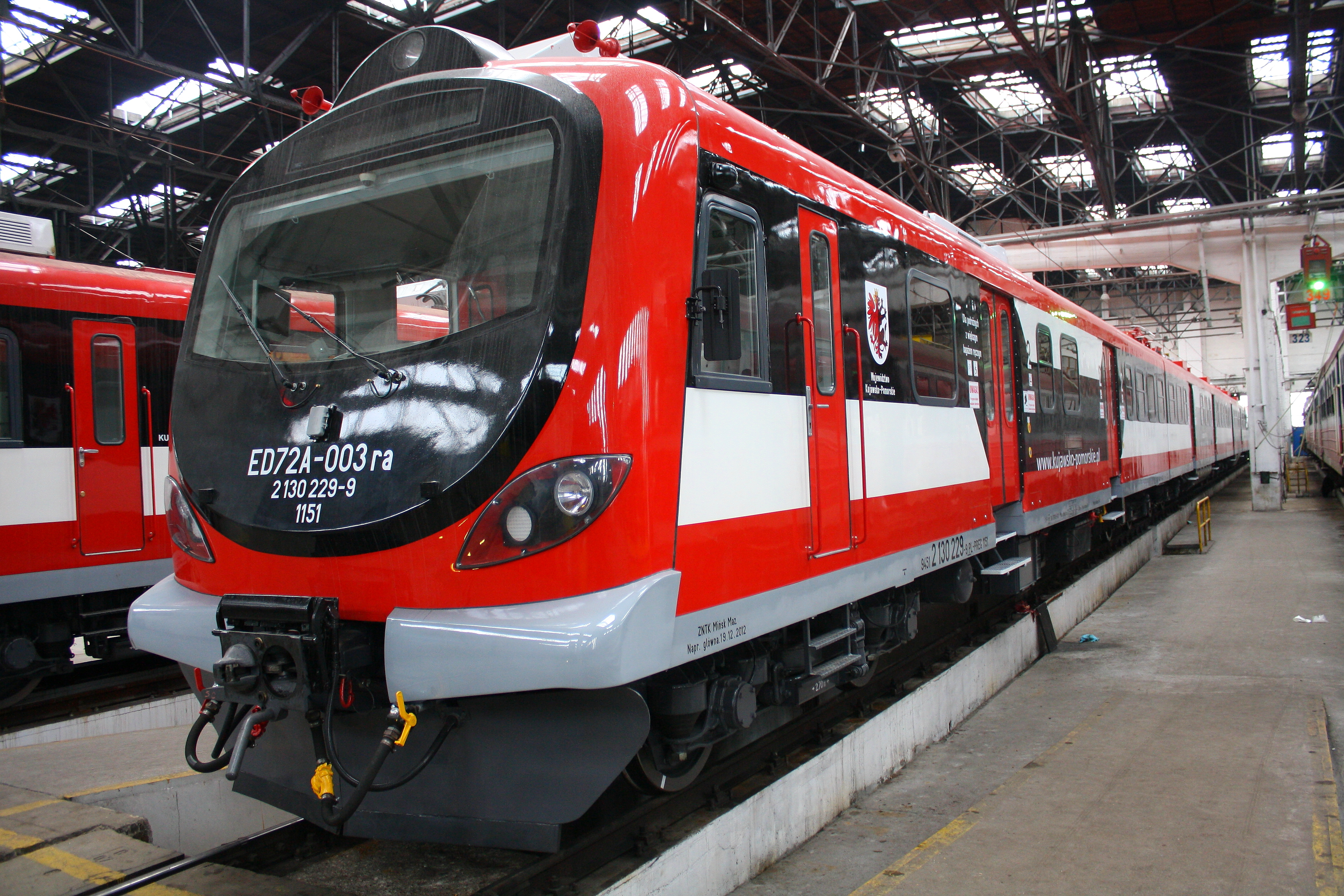 Modernized ED72A-003 in Torun Kluczyki